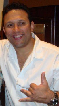 Renzo Gracie w/fan cropped